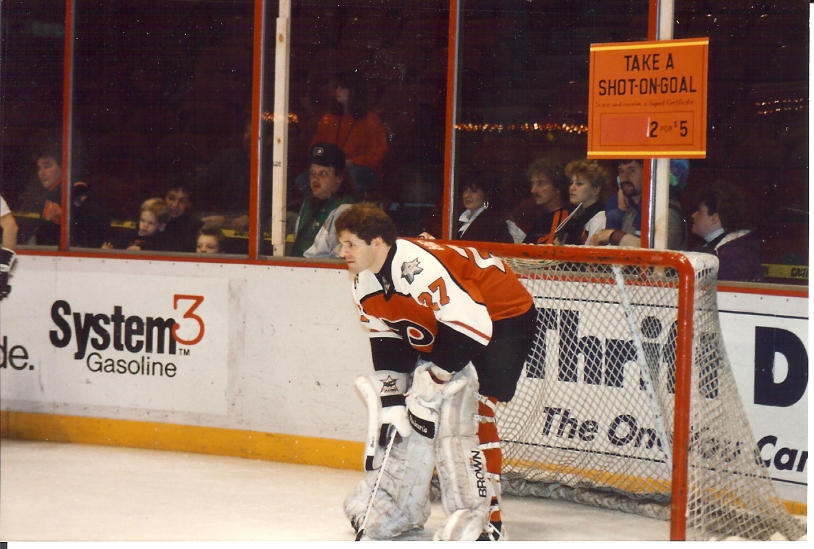 1992 Photo of Philadelphia Flyers goalie, Ron Hextall, in goal at the Flyers Wives Carnival.